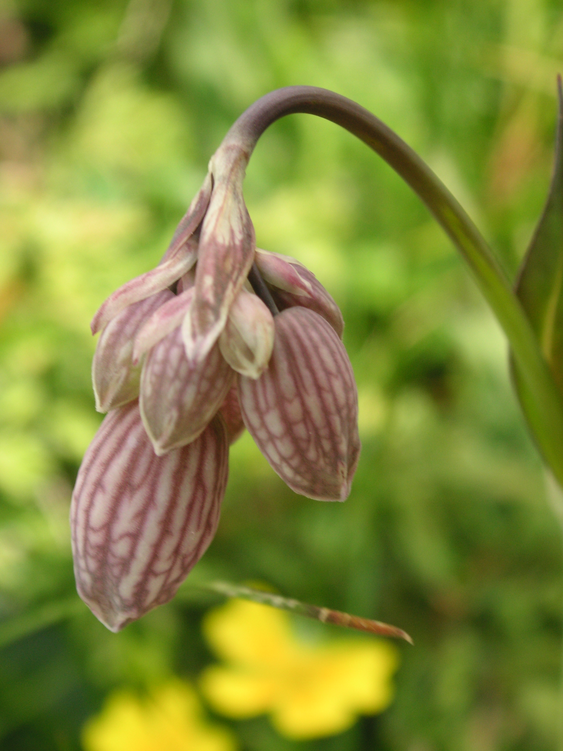 Silene vulgaris